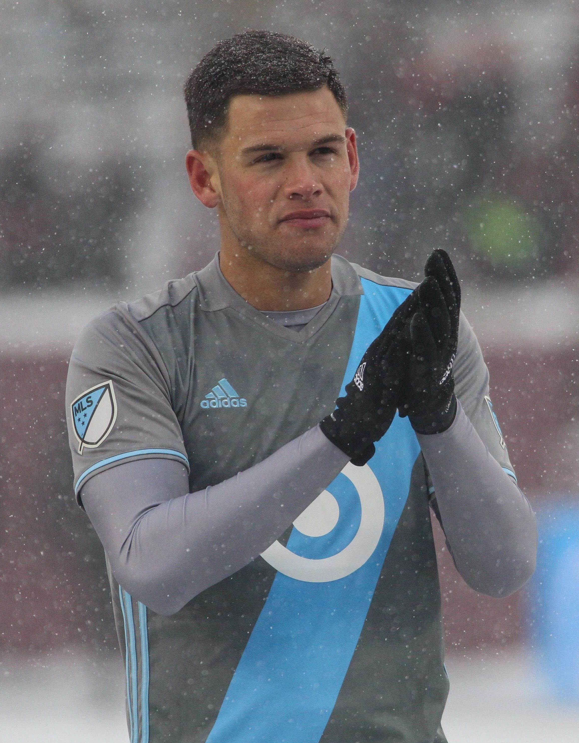 Christian Ramirez - MNUFC - MLS - Soccer